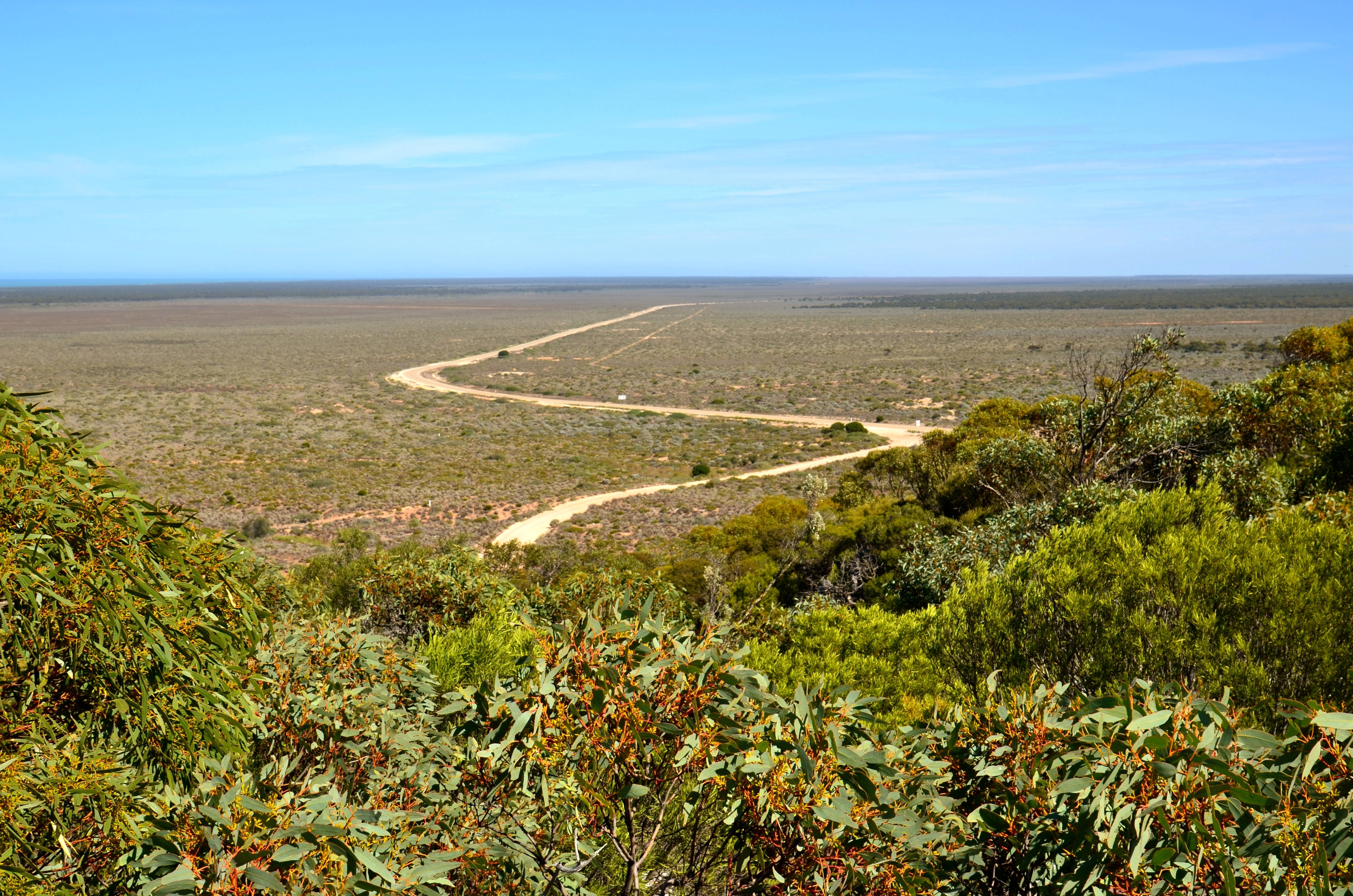 View of the Roe Plains from the Eucla Pass, Eucla, Western Australia. In the centre of the image is the Eyre Highway.